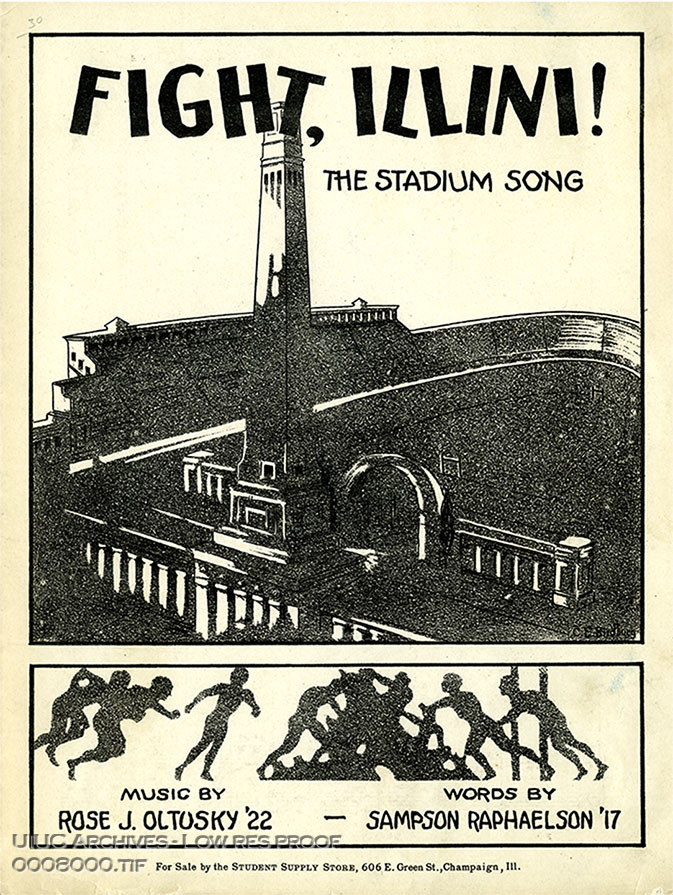 Front cover of the song "Fight Illini," written by University of Illinois students Sampson Miles Raphaelson and Rose Josephine Oltusky Edelson.